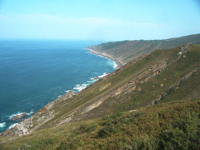 Jaizkibel cliff